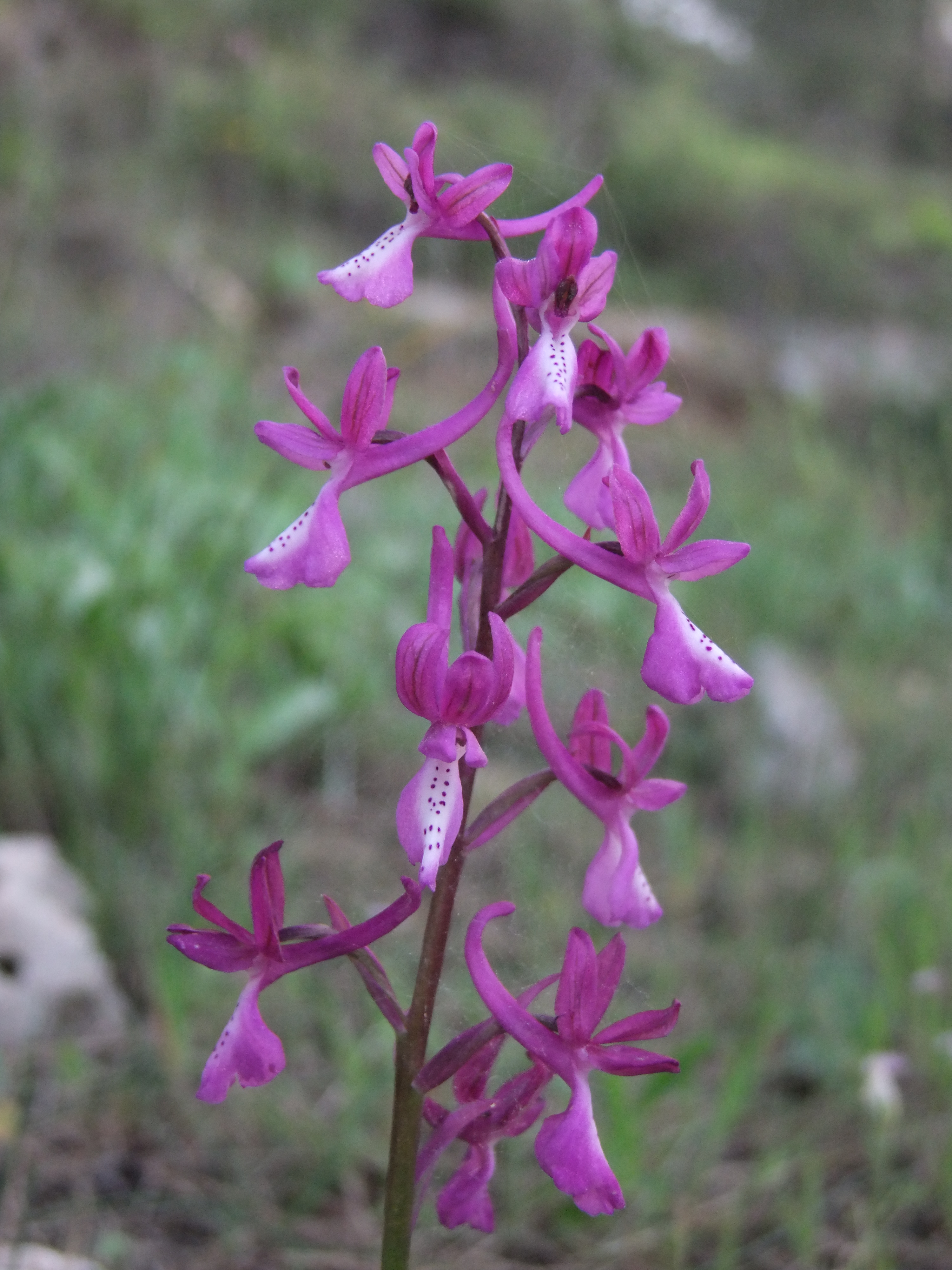 Orchis anatolica - Flowers in Jerusalem forest, spring 2012